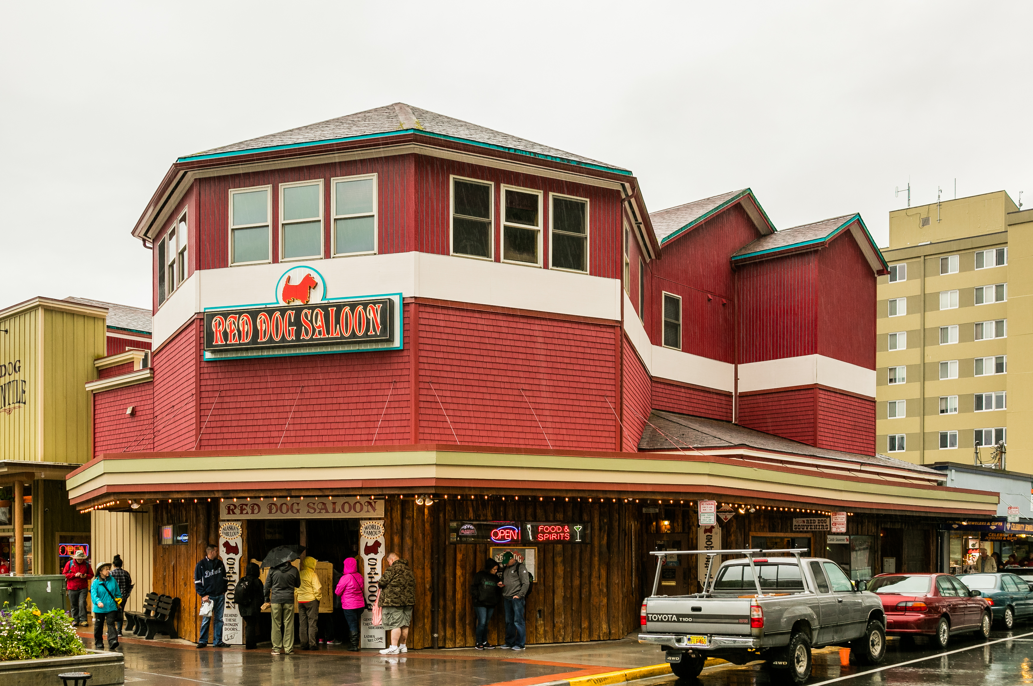 Red Dog Saloon, Juneau, Alaska, United States